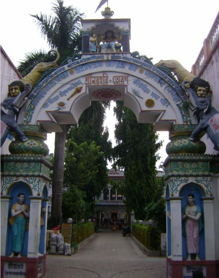 The Entrance Gate of Devananda Gaudiya Math, known as the Narahari Torana